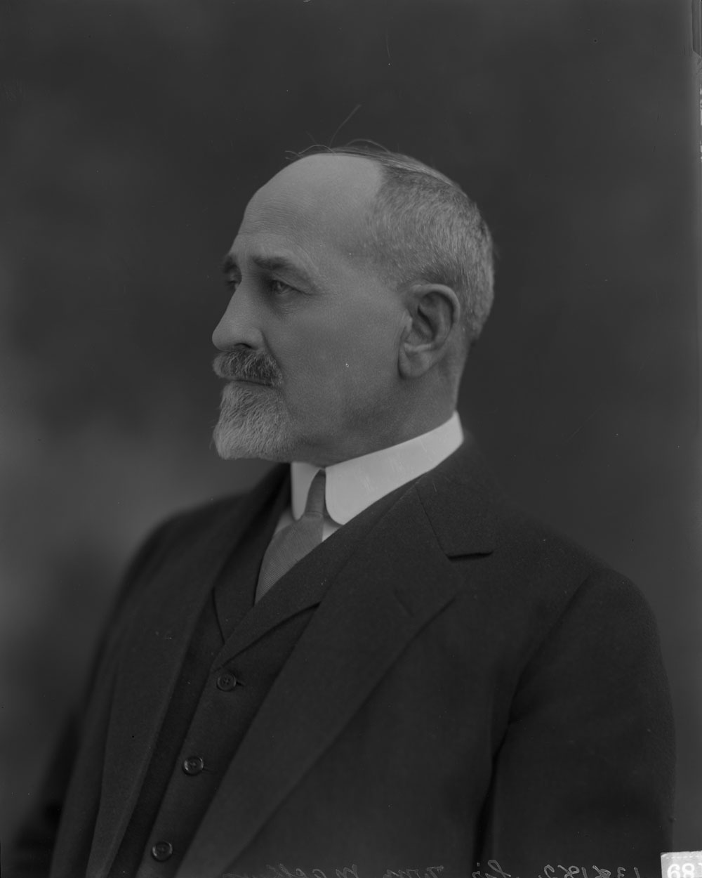 Sir William Mackenzie in April 1917.